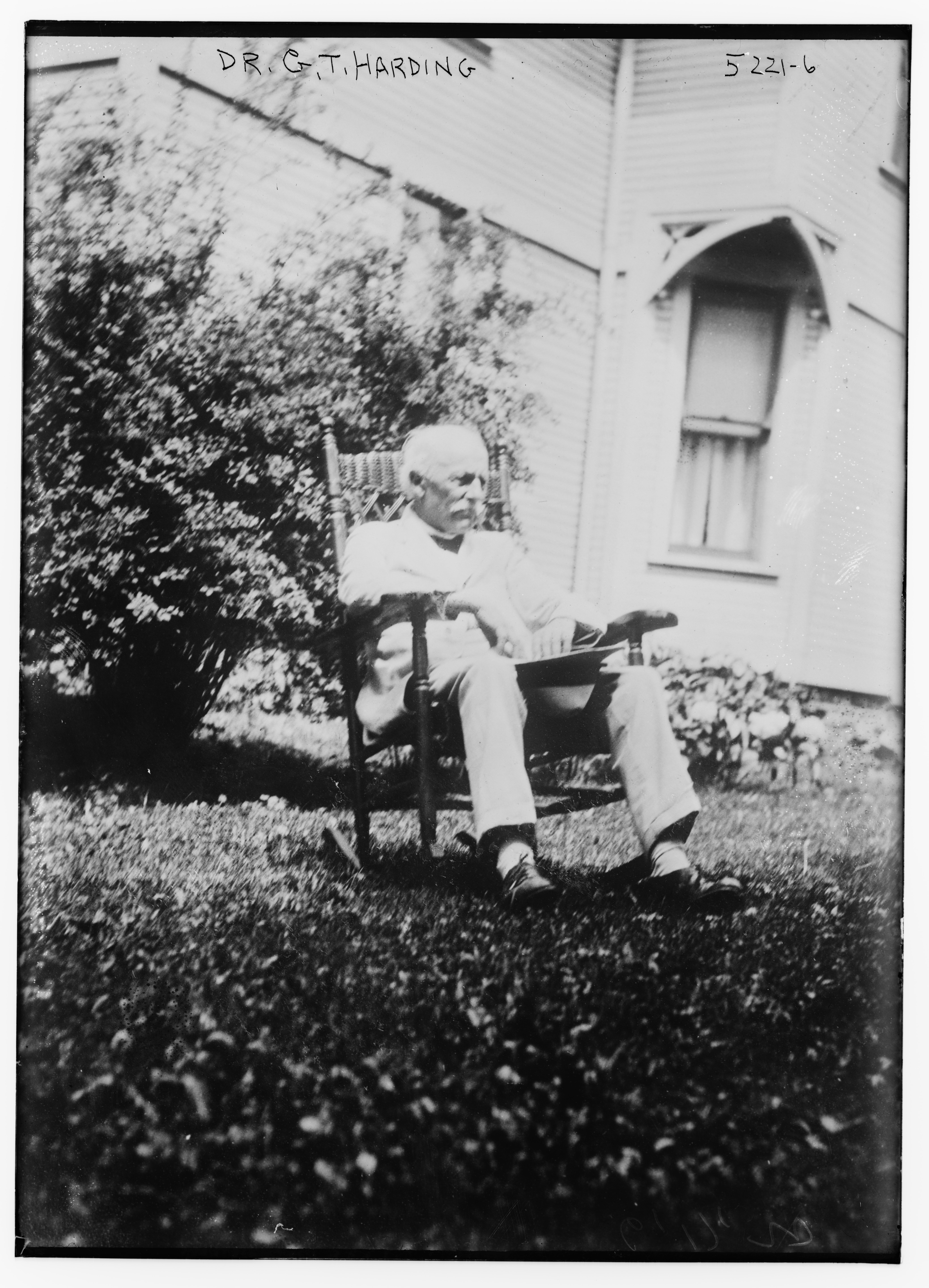 George Tryon Harding II in 1922